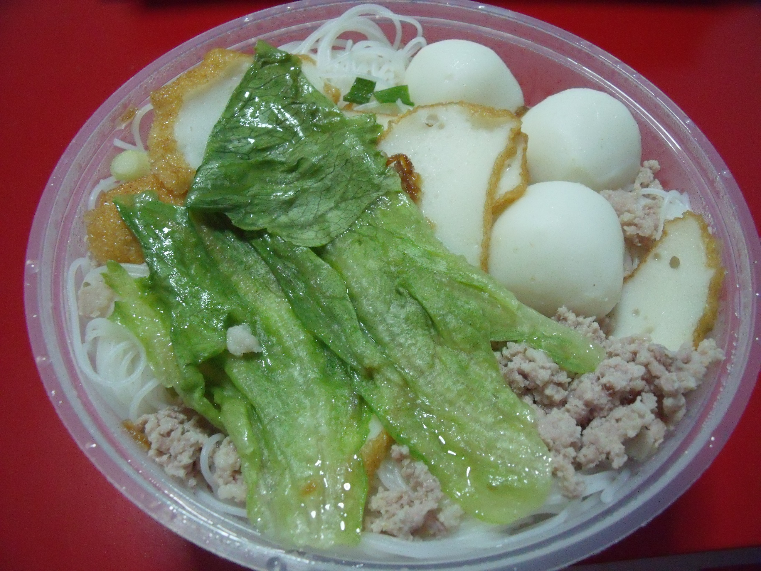 Fish ball vermicelli, my supper from Bukit Batok.